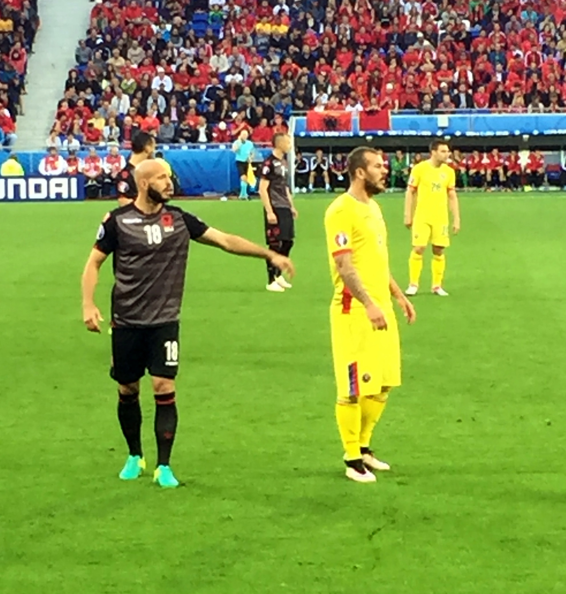 Romania-Albania (2016-06-19)